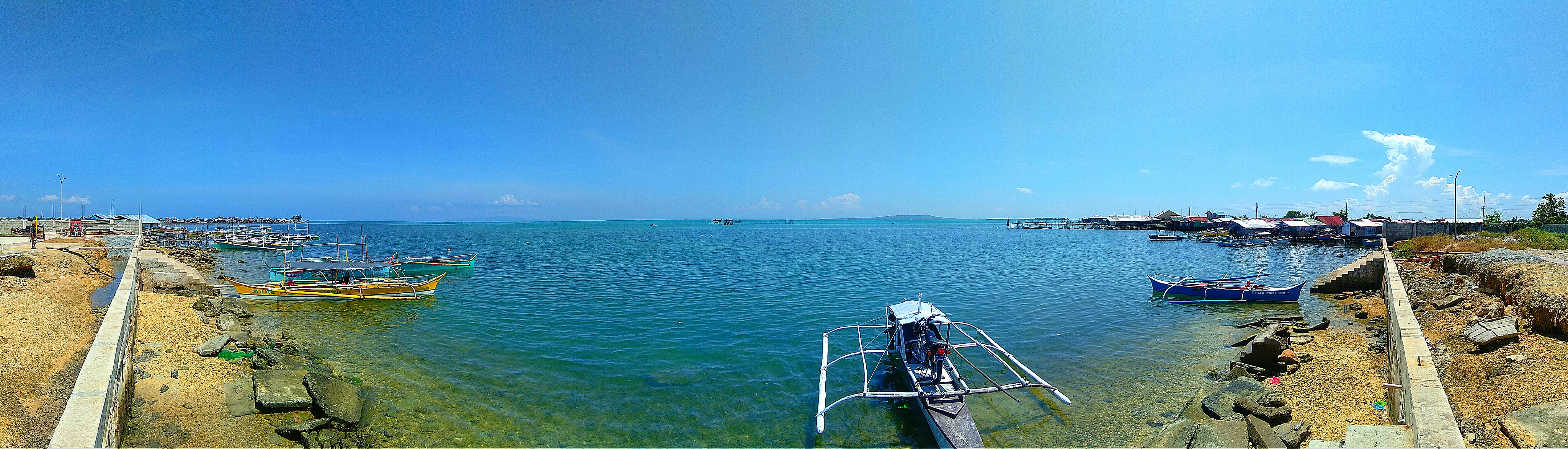 View of the Leyte Gulf facing Southwest from the Guiuan Integrated Transport Terminal, Guiuan, Eastern Samar, showing the islands of Homonhon (left, nearly invisible due to haze), Manicani (near center), and Inatunglan (to the immediate right of Manicani)